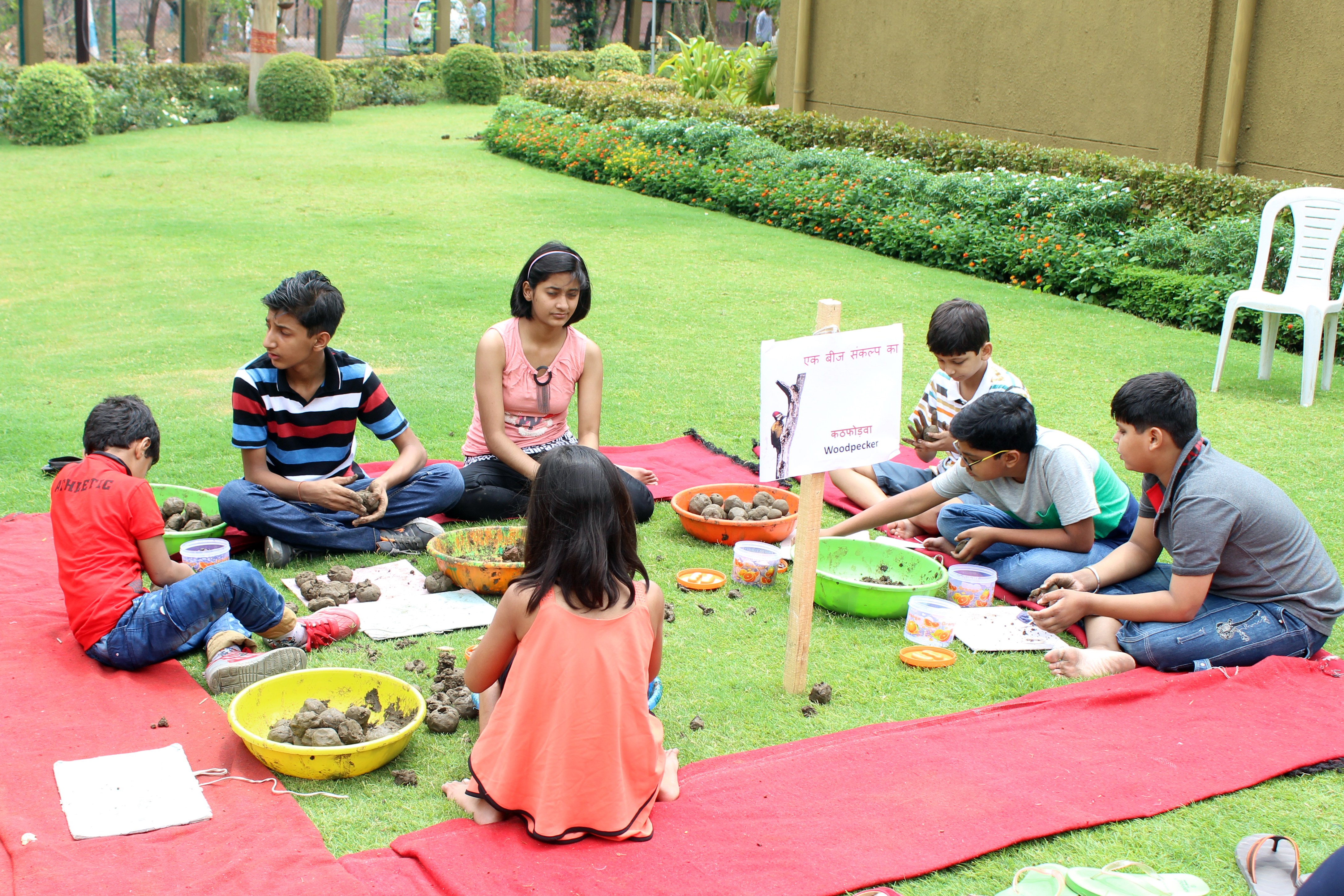 Activities for making Mud Seed ball in Bhopal